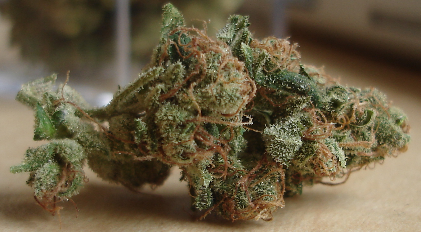 Sour Diesel Bud : Sour Diesel is a sativa dominant hybrid strain having Chemdog 91 and Super Skunk ancestry. Sour Diesel has an earthy aroma and is attributed with having euphoric, stress relieving and pain relieving properties. Originally discovered in 1990 This strain contains a sativa/indica ratio of 90:10, making it suitable for usage during the day.